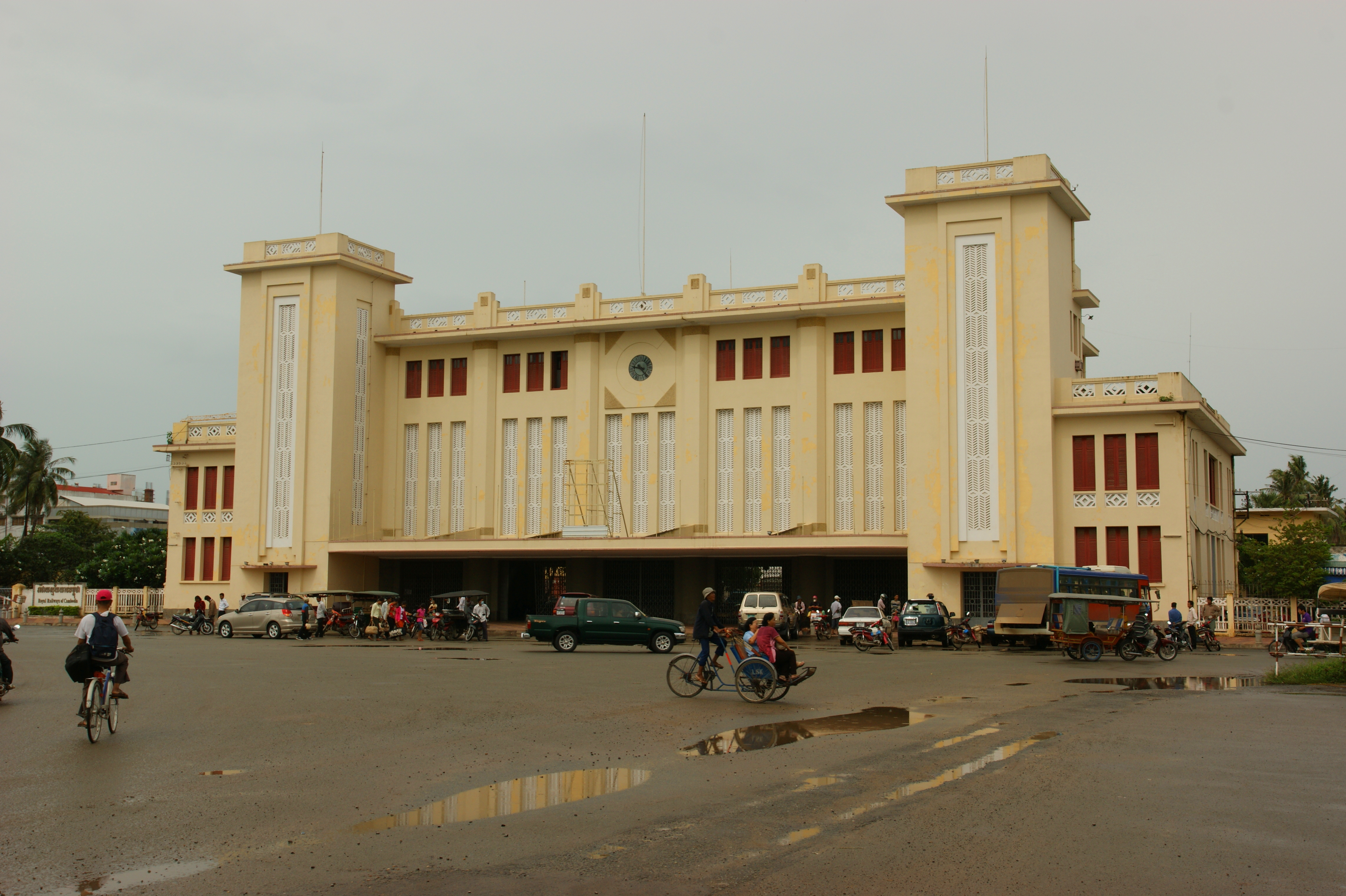 Train Station Phnom Penh 2009-09-07